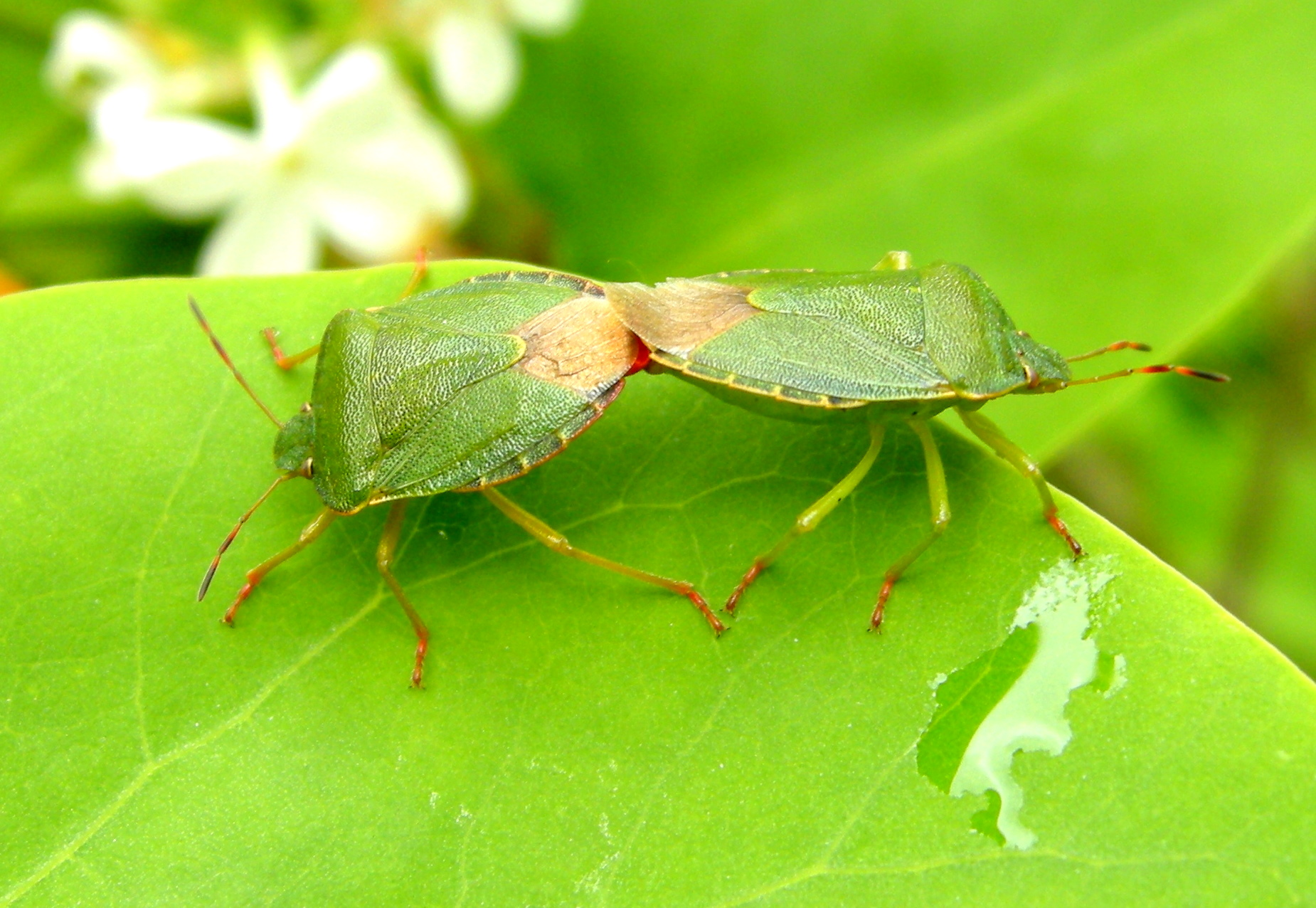 The green shield bug (Palomena prasina) - mating. It is a shield bug of the family Pentatomidae. Larvik, Norway.